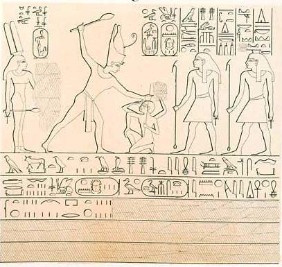 Queen Iaret stands behind her husband as he smites the enemy. From a stela dating to year 7 from the temple at Amada (Nubia)